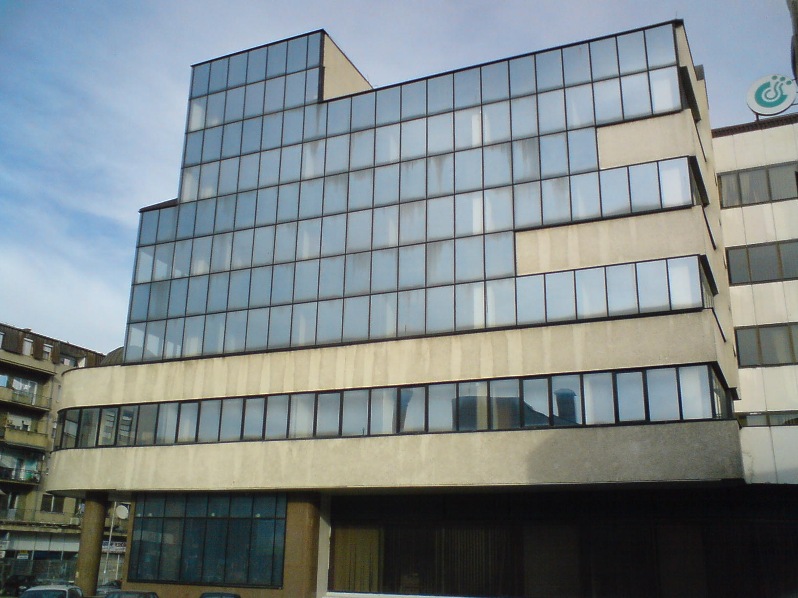 Stopanska Banka Bitola.